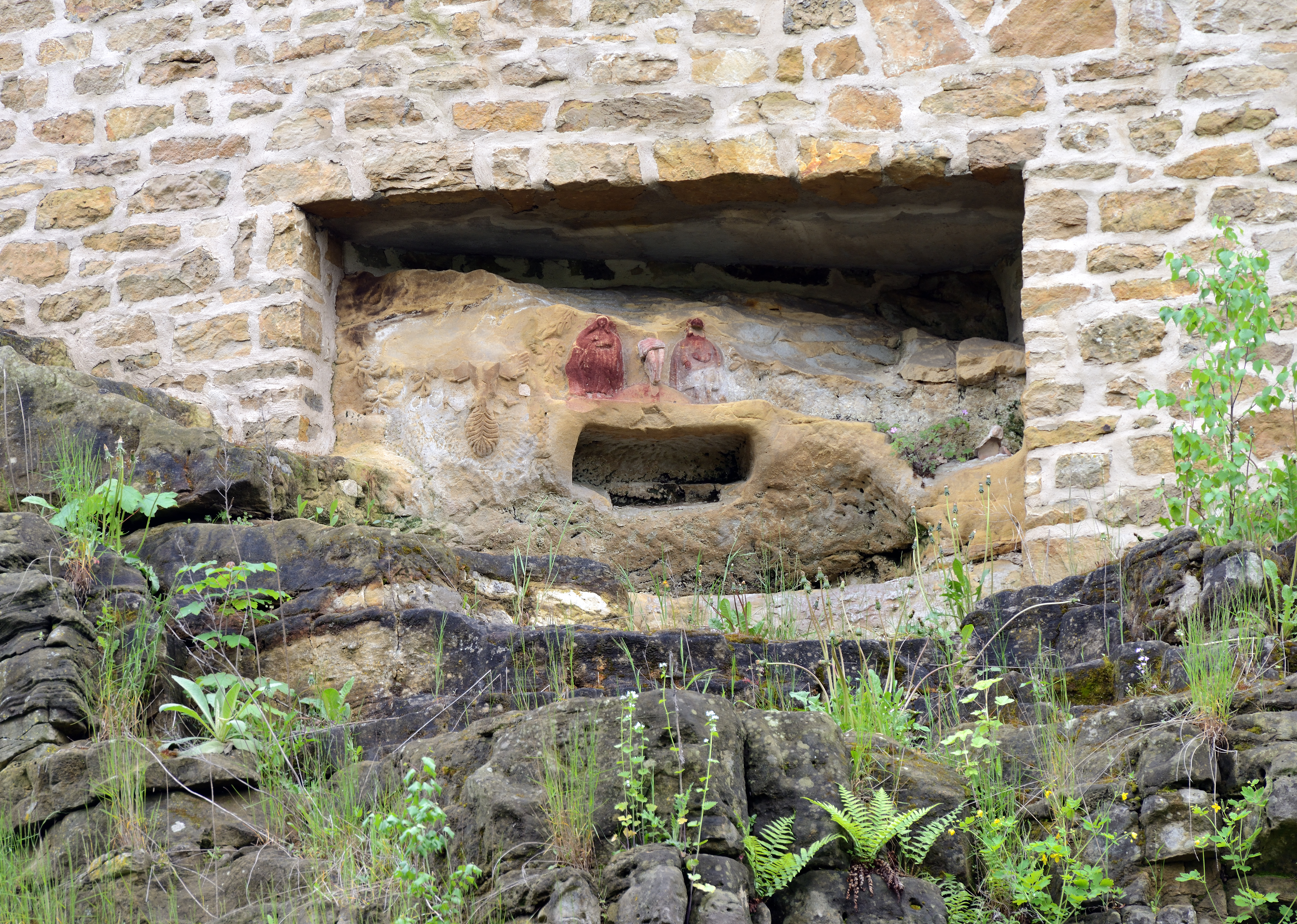 Luxembourg City, rue des Glacis: historical reliefs on the rock.